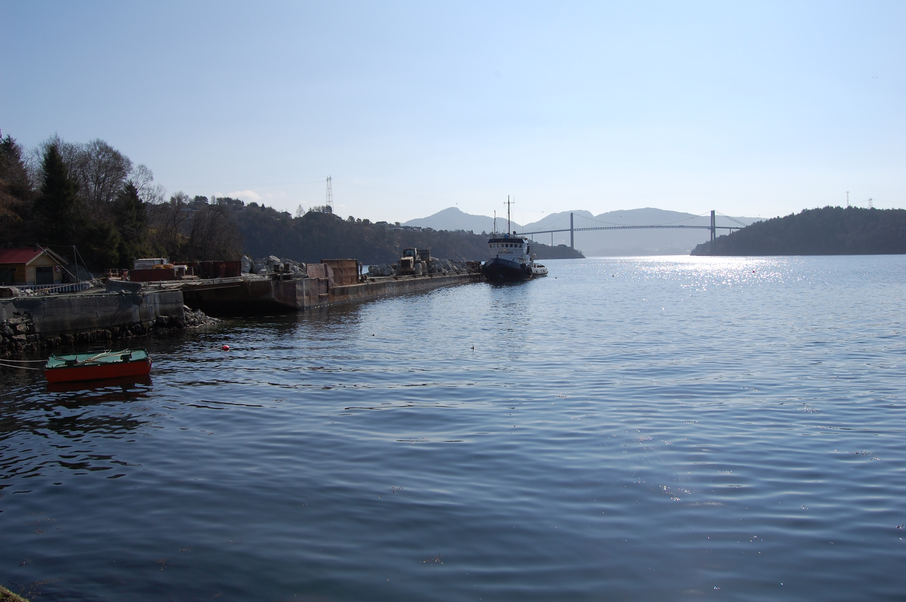 Part of Isdalstø harbour